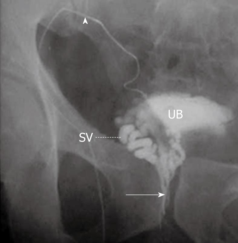 Percutaneous vasography shows normal right sided vasogram with opacification of the right vas (arrowhead), SV and ejaculatory duct (arrow) with retrograde opacification of the urinary bladder (UB).